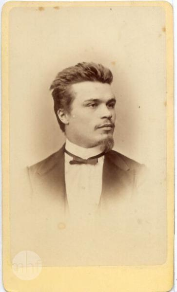 Dr Karol Żuławski (1845-1914)